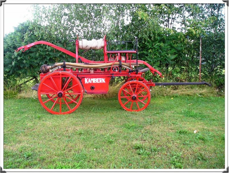 historical hand operated fire pump (1889-made by R.A. Smekal company) from fire brigade in Kamberk- central Bohemian (Czech Republic)